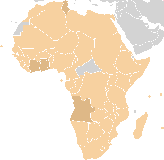 Description Teams of , - Africa Date24 April 2009Sourceown work based on File:FIFA WM 2006 Teams.pngAuthor44Charles Teams of , - Africa